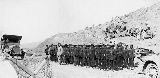 Army of Afghanistan in 1920.